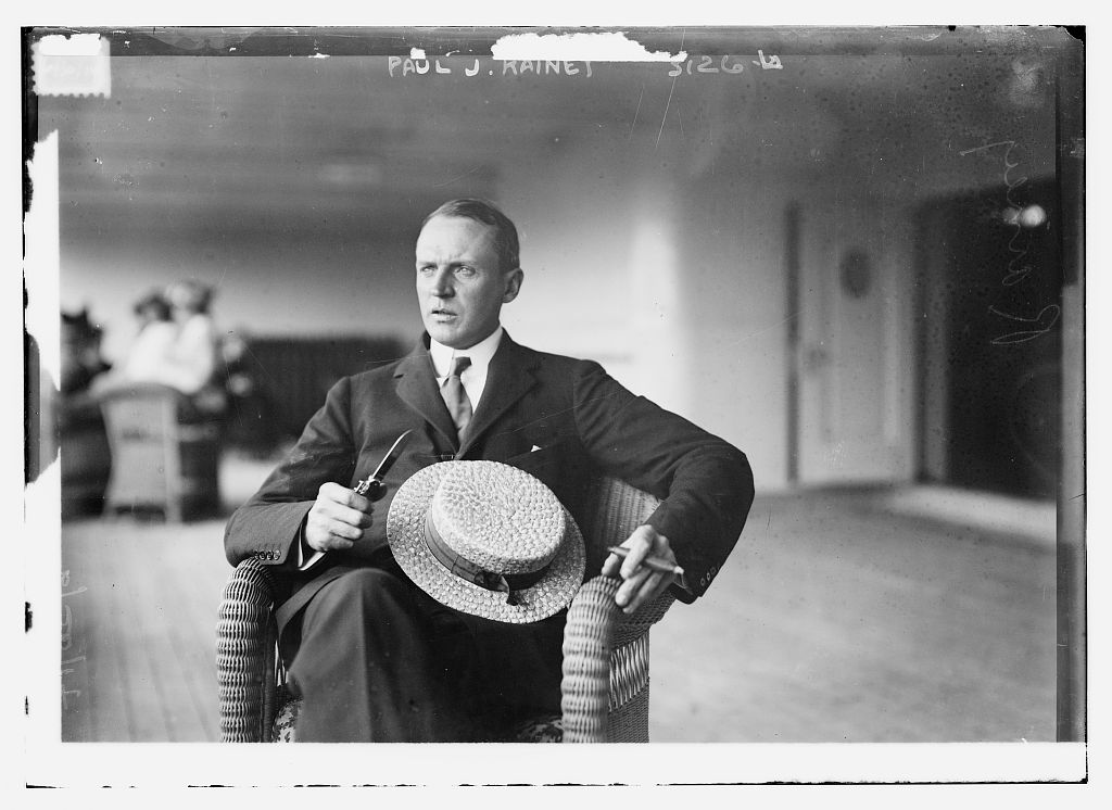 Paul J. Rainey in 1914 Bain News Service,, publisher. Paul J. Rainey [between ca. 1910 and ca. 1915] 1 negative : glass ; 5 x 7 in. or smaller. Notes: Title from unverified data provided by the Bain News Service on the negatives or caption cards. Forms part of: George Grantham Bain Collection (Library of Congress). Format: Glass negatives. Repository: Library of Congress, Prints and Photographs Division, Washington, D.C. 20540 USA, General information about the Bain Collection is available at Persistent URL: Call Number: LC-B2- 3126-6